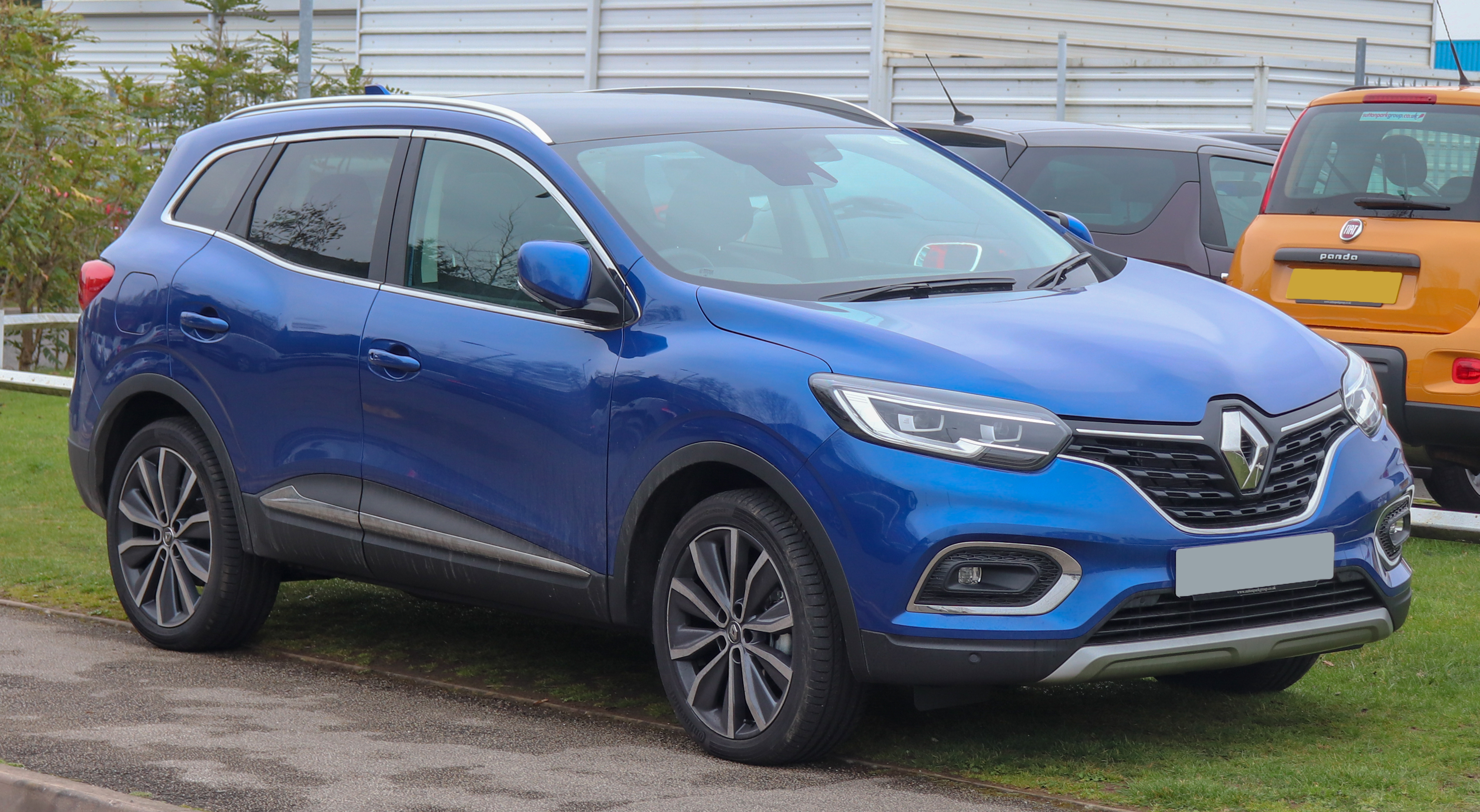 2018 Renault Kadjar S Edition TCE 1.3 Front Taken in Leamington Spa